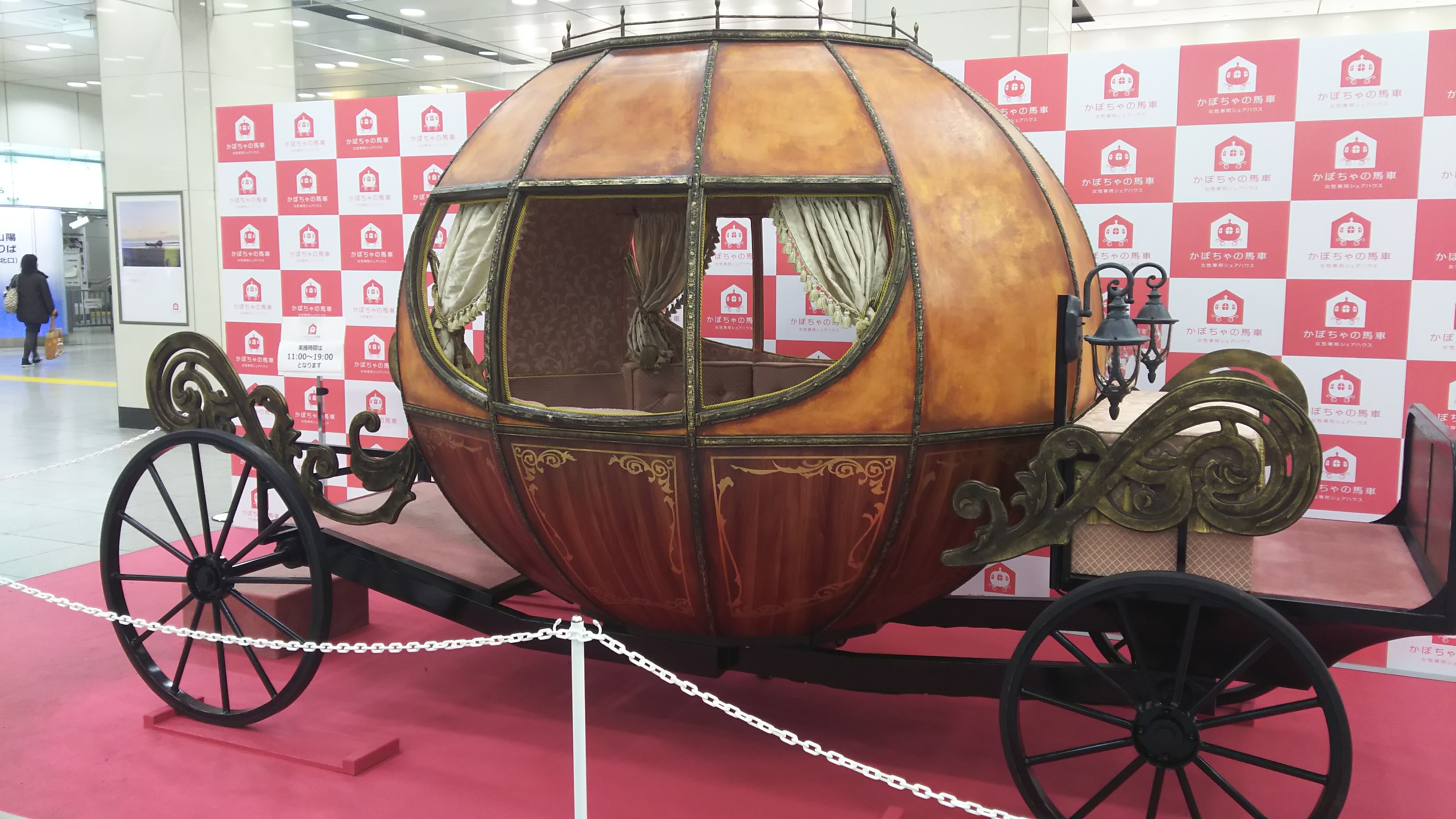 This is a pumpkin carriage by SMART DAYS, INC., a real estate company located in Tokyo, Japan. It was taken on Tokyo station.